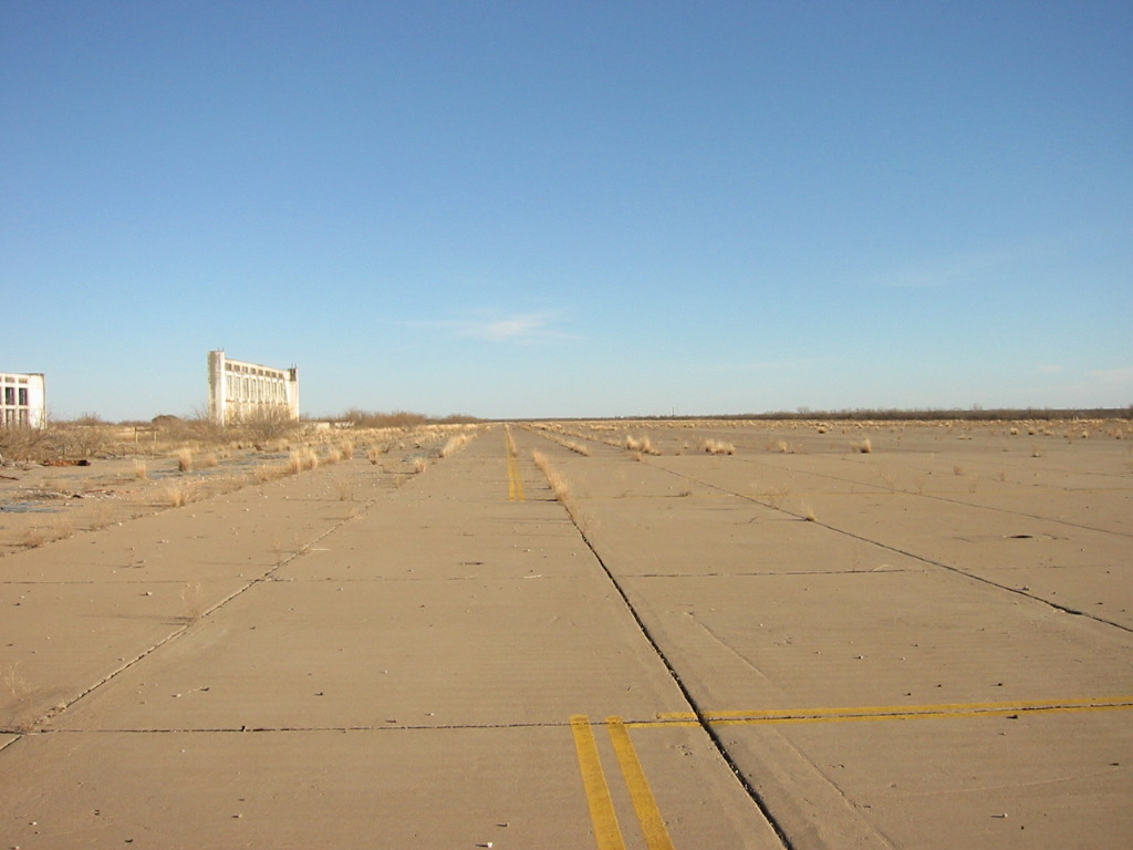 2002 view of Pyote AAF in west Texas